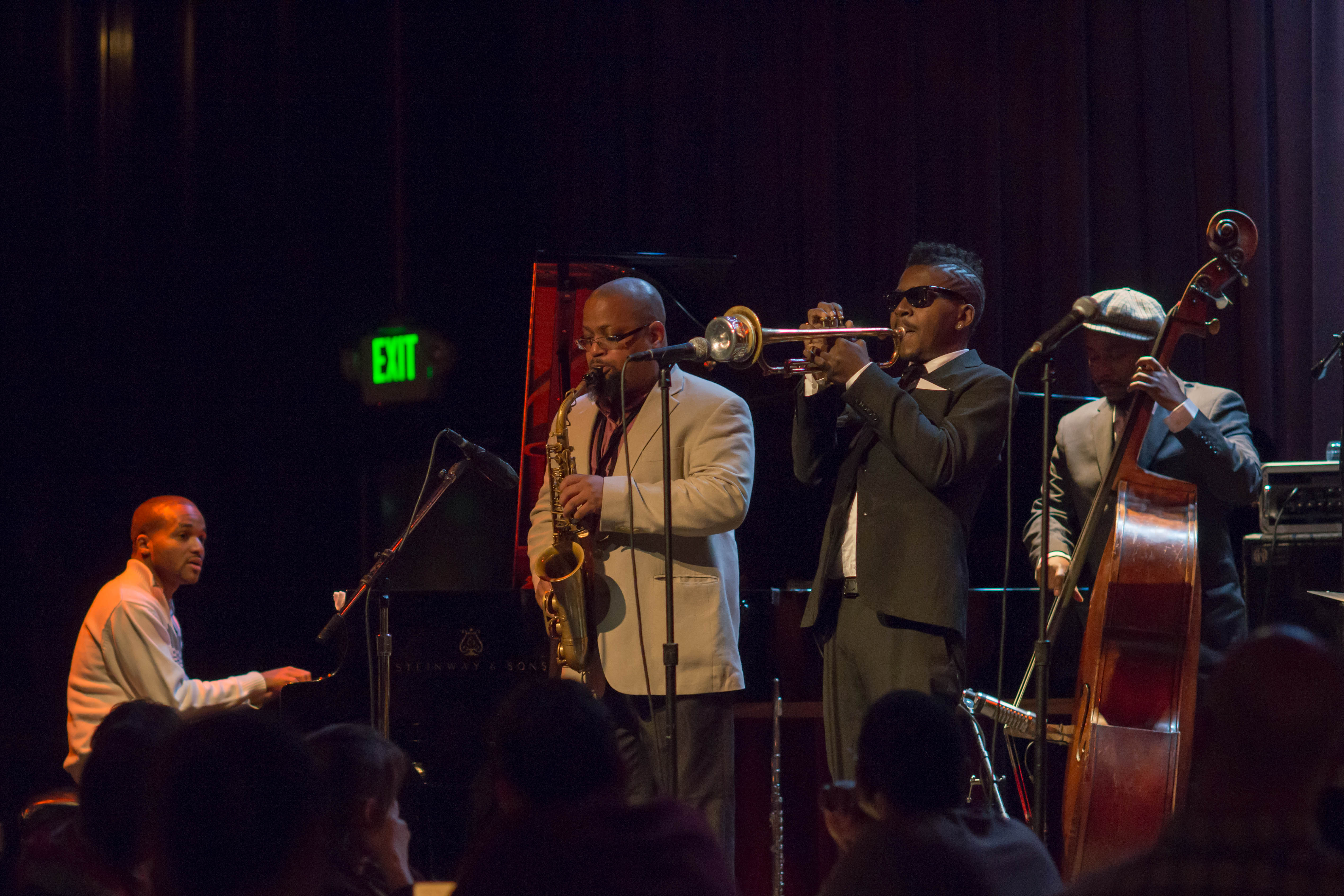 From the 9:30pm set on Saturday, October 26th, 2013. Band members are Roy Hargrove (trumpet), Justin Robinson (sax), Sullivan Fortner (piano), Ameen Saleem (bass) and Quincy Phillips (drums).